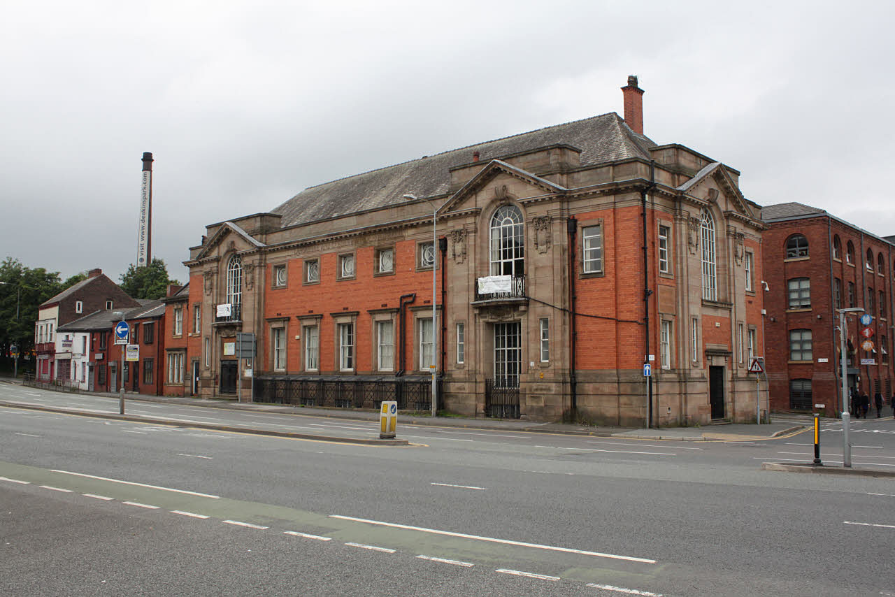 Lancashire and Cheshire Miners Federation building